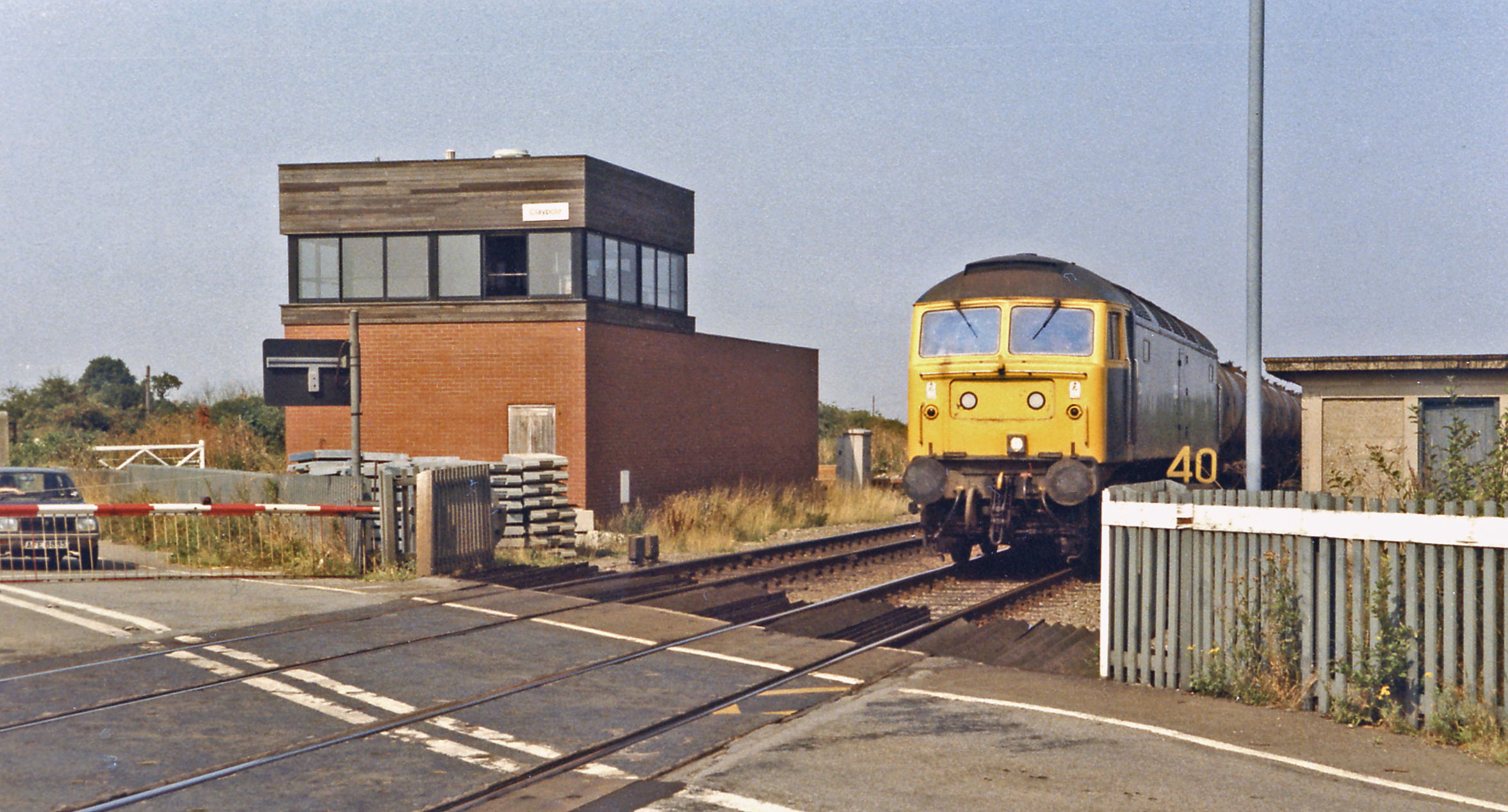 Site of Claypole station on ECML, 1983, View NW, towards Newark, Doncaster and the North, ex-GNR ECML. The station was closed to passengers on 16/9/57, to goods on 6/7/64: the impressive signalbox is obviously modern. The Up oil train - no doubt from Immingham - is headed by Type 4 Diesel No. 47.228.